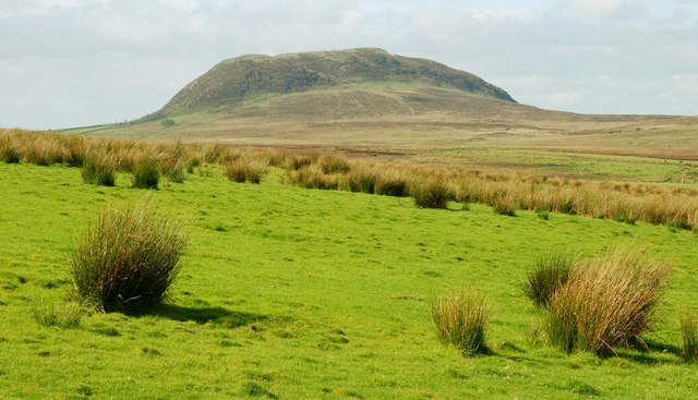 Slemish (10). See 206769. Slemish, seen across the moorland to the south east of Broughshane, from the Shilnavogey Road 961592. It dominates the landscape from all directions.